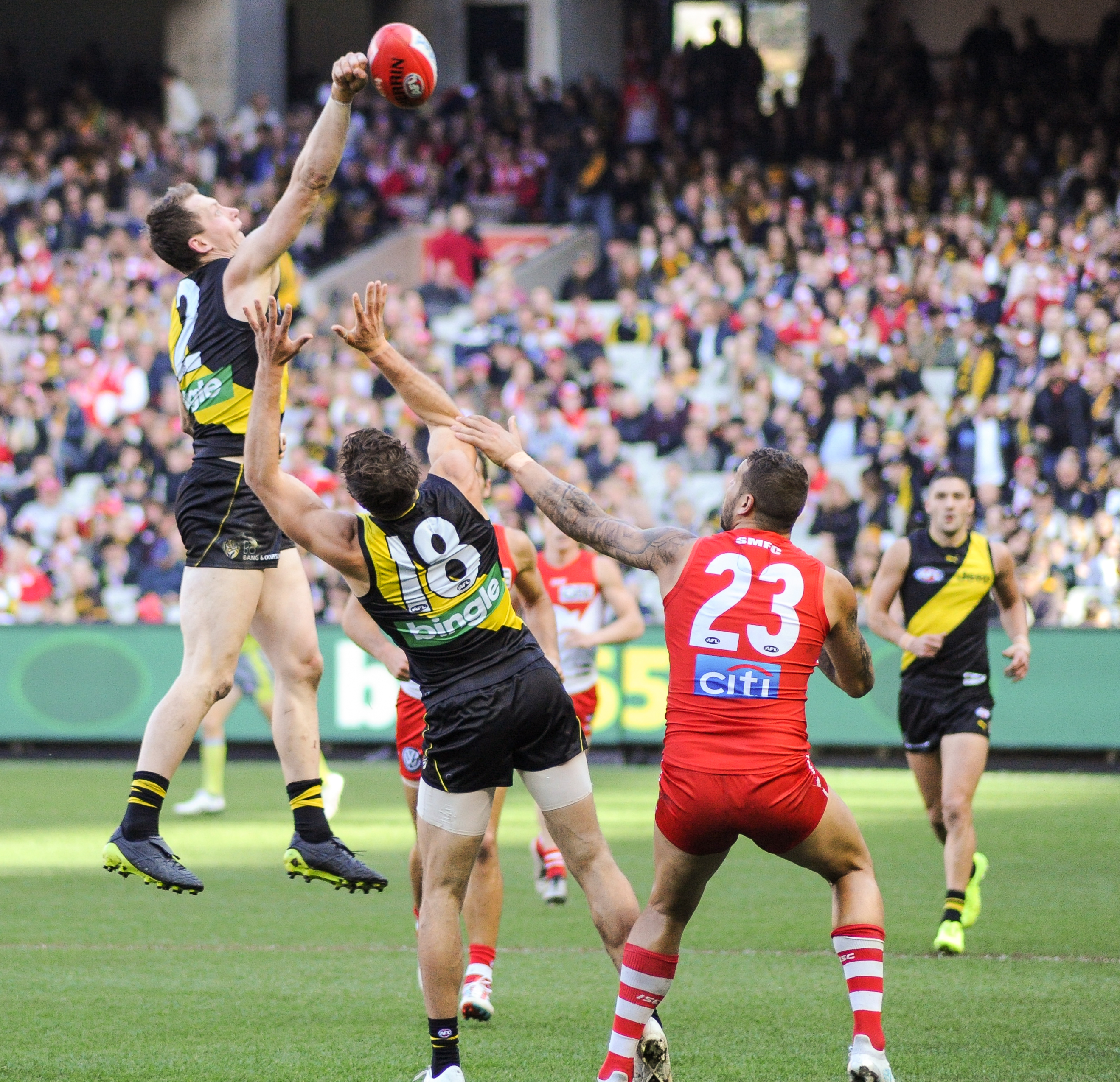 Dylan Grimes spoil during the AFL round thirteen match between Richmond and Sydney on 17 June 2017 at the Melbourne Cricket Ground in Melbourne, Victoria.